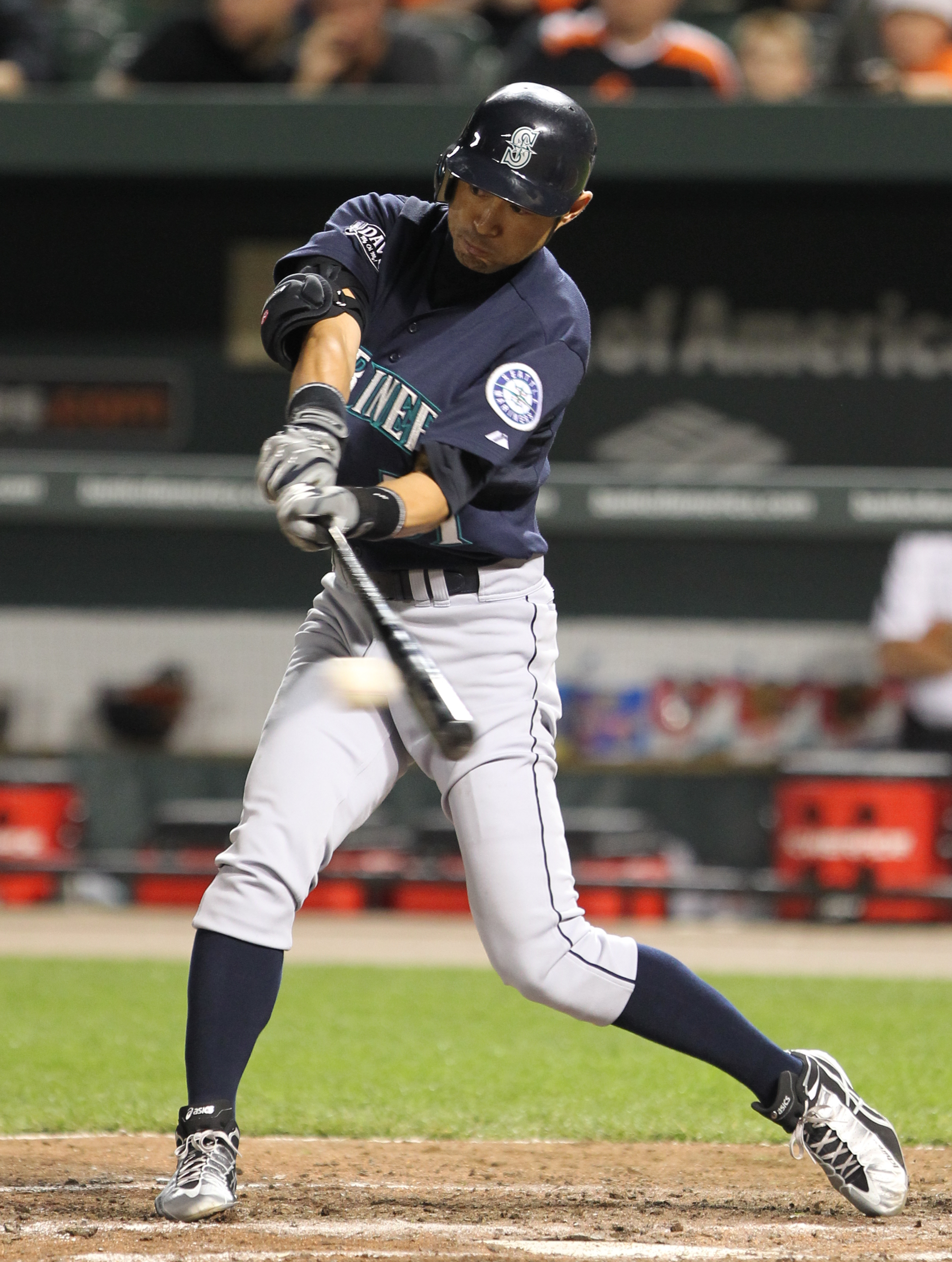 Seattle Mariners right fielder Ichiro Suzuki (51) in action against the Baltimore Orioles on May 10, 2011 at Oriole Park at Camden Yards in Baltimore.